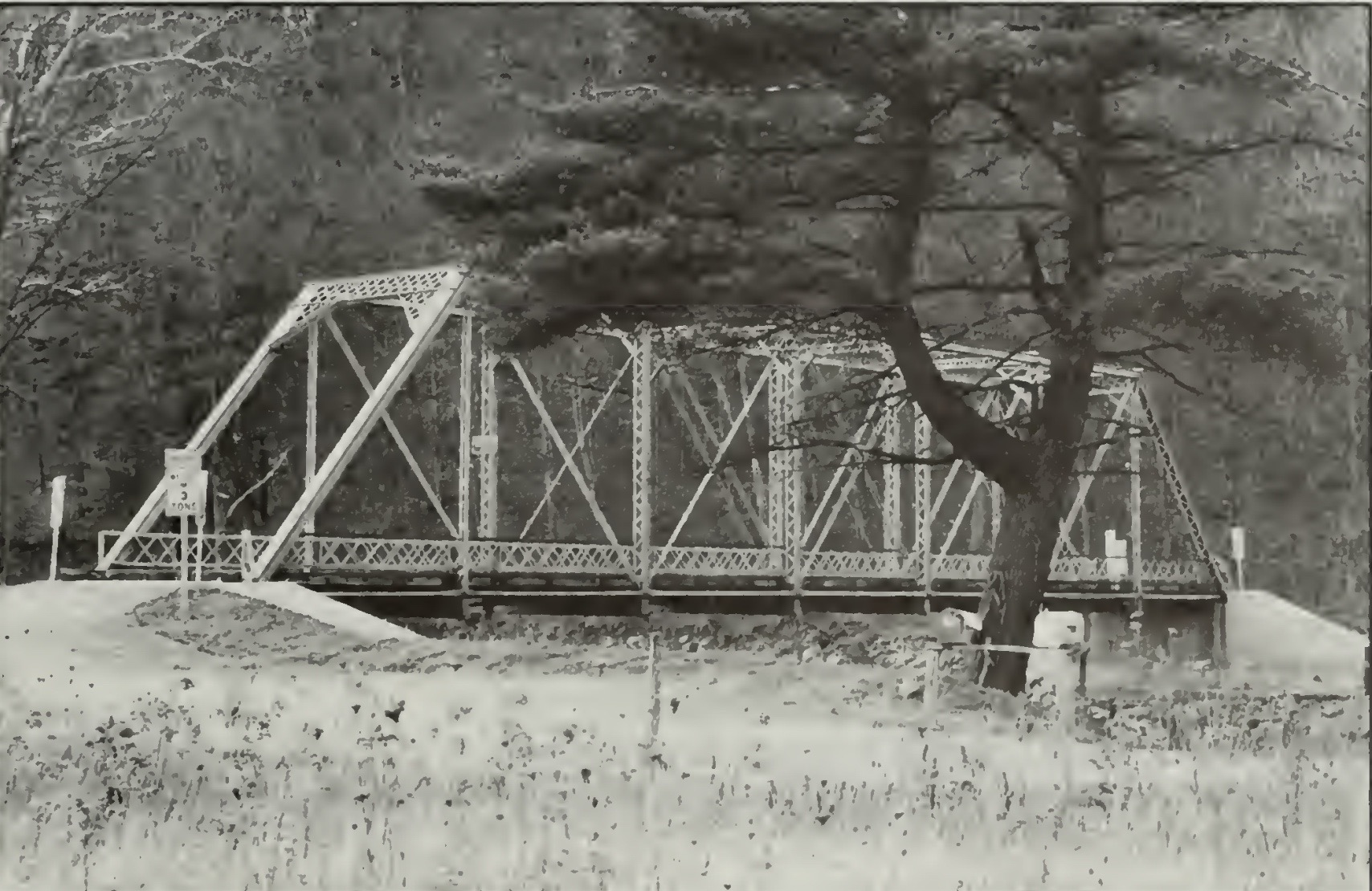 Frehn Bridge list on the NRHP on March 20, 1990 (and still listed even though it has been demolished. On Township Route 313, 2 miles (3.2 km) west of Pennsylvania Route 475 in southern Springfield Township The bridge has been demolished and replaced with a modern structure.[6]